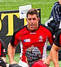 Match between New Zealand vs Canada during 2011 Rugby World Cup in New Zealand. Original description: Victor Vito of NZ about to score against Canada. NZ won this game 79-15 to advance to the Quarter Finals of the World Cup. NZ is currently ranked #1 in the world so Canada at #12 was always going to have a tough battle against the mighty All Blacks.